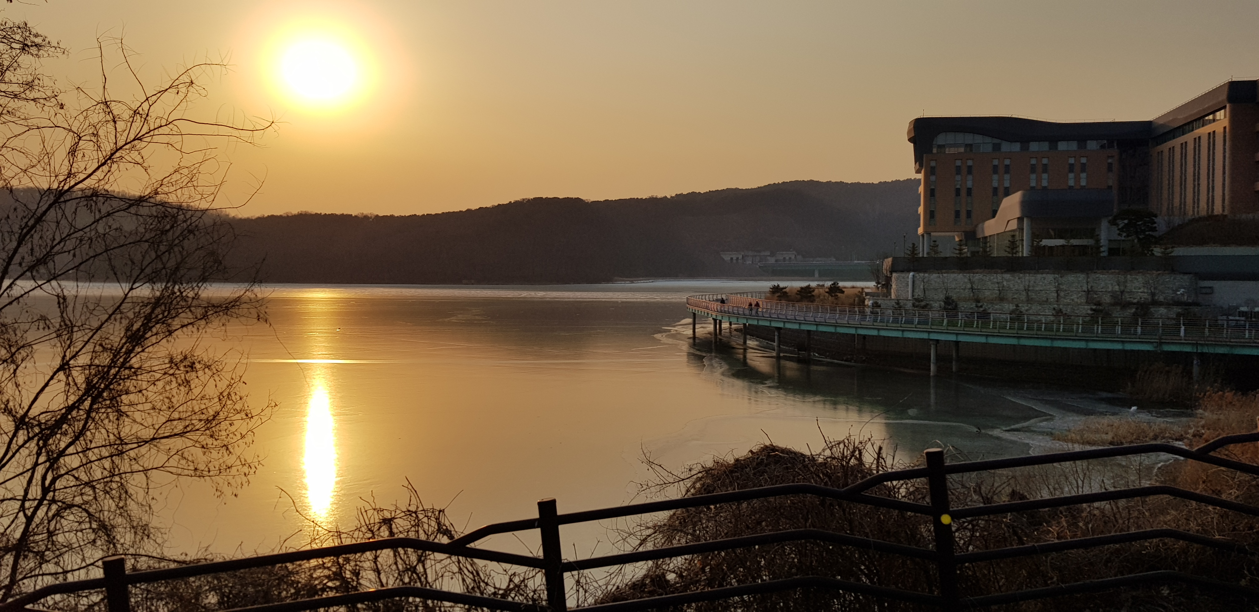 Icing Gihung Lake in Winter on Sunset